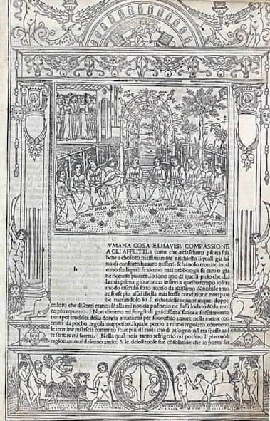 Proemio (Foreword) Boccaccio Decameron, Giovanni & Gregorio de Gregorii fratelli, MCCCCLXXXXII ad di XX de giugno ( = 20 June 1492) Text: Umana cosa elhaver compassione a gli afflitti. e come che a ciaschuna persona stia bene a choloro massimamente e richiesto liquali gia hanno di conforto havuto misteri: & hanolo trovato in alcuno fra liquali se alcuno mai nebbe:ogli fu caro o gia ne ricevete piacere. Io sono uno di quelli per cio...